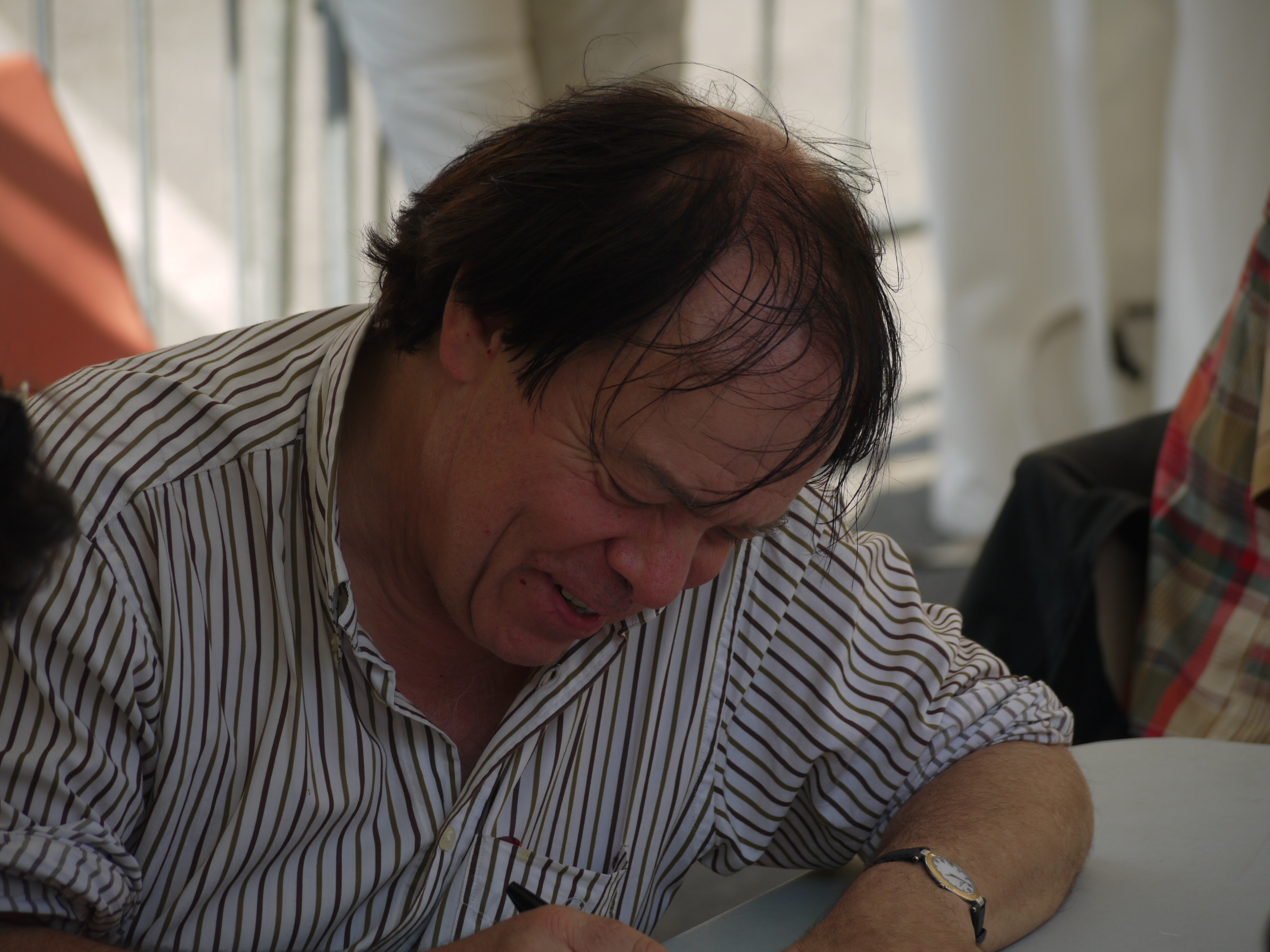 Photograph taken during the 2009 edition of the Comic Strip Festival of Roquebrune sur Argens in France. - OpenStreetMap(Info)